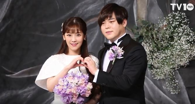 The wedding of Moon Hee-joon and Soyul (Park Hye-kyeong), the first K-pop idol wedding in the history of K-pop.